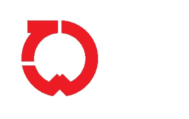 Flag of Tenei Fukushima